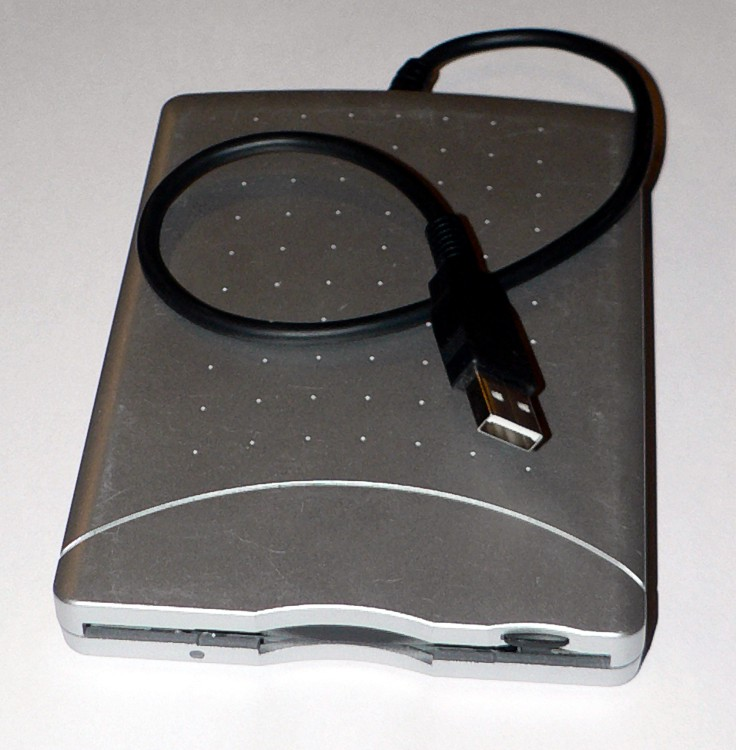 computer hardware fdd floppy external usb